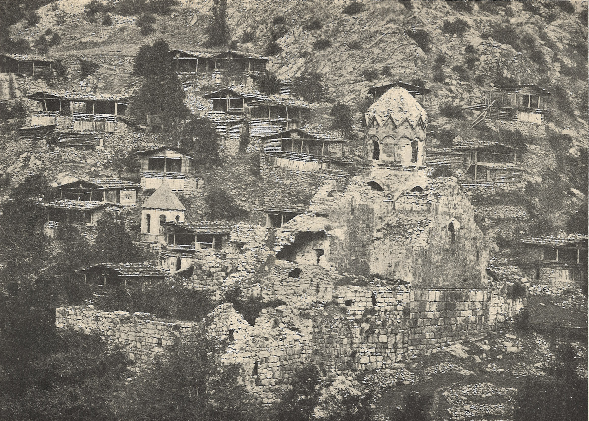 A ruined medieval Georgian church at the village of Y. Porta, now Turkey, which N. Marr thought was the medieval Georgian convent of Shatberdi. Porta is now identified with Khandzta.